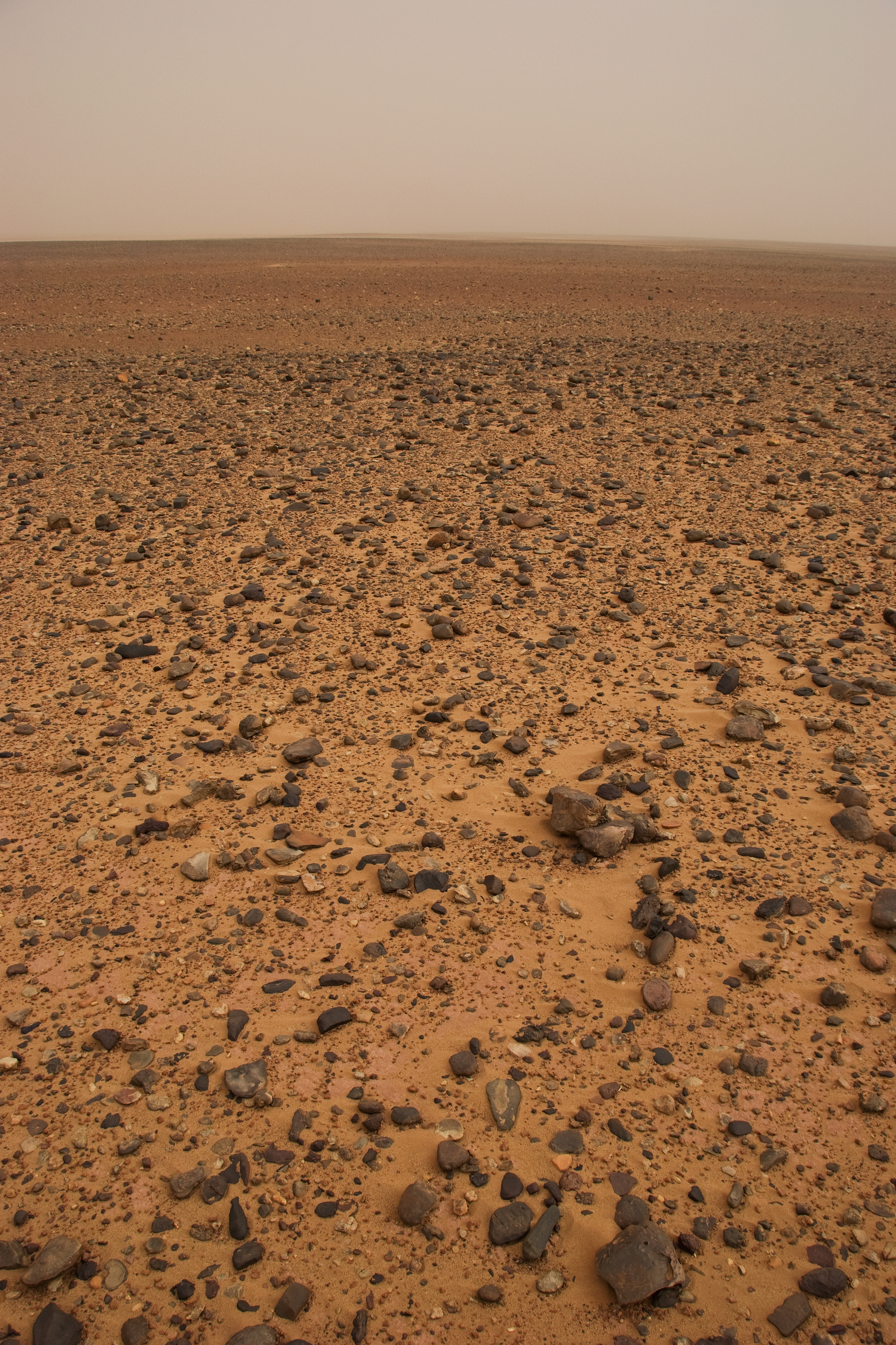 That could be easily the latest photo from some Mars exploration rover. It was a surface of desert near M'Hamid. The whole set from Morocco